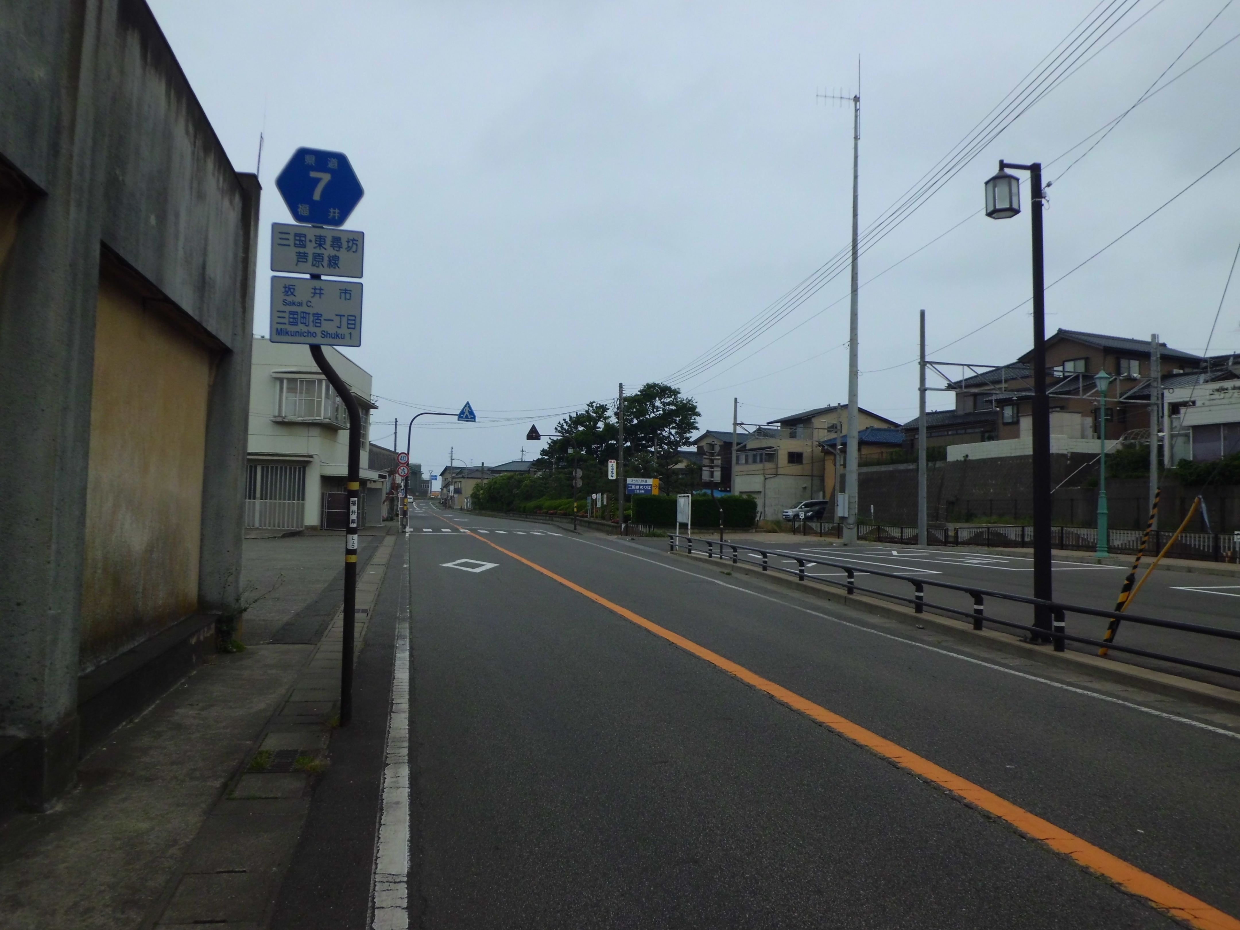 Fukui prefectural road 7 Mikuni-Tojinbo-Awara line. Looking west from Mikuniminato Station.